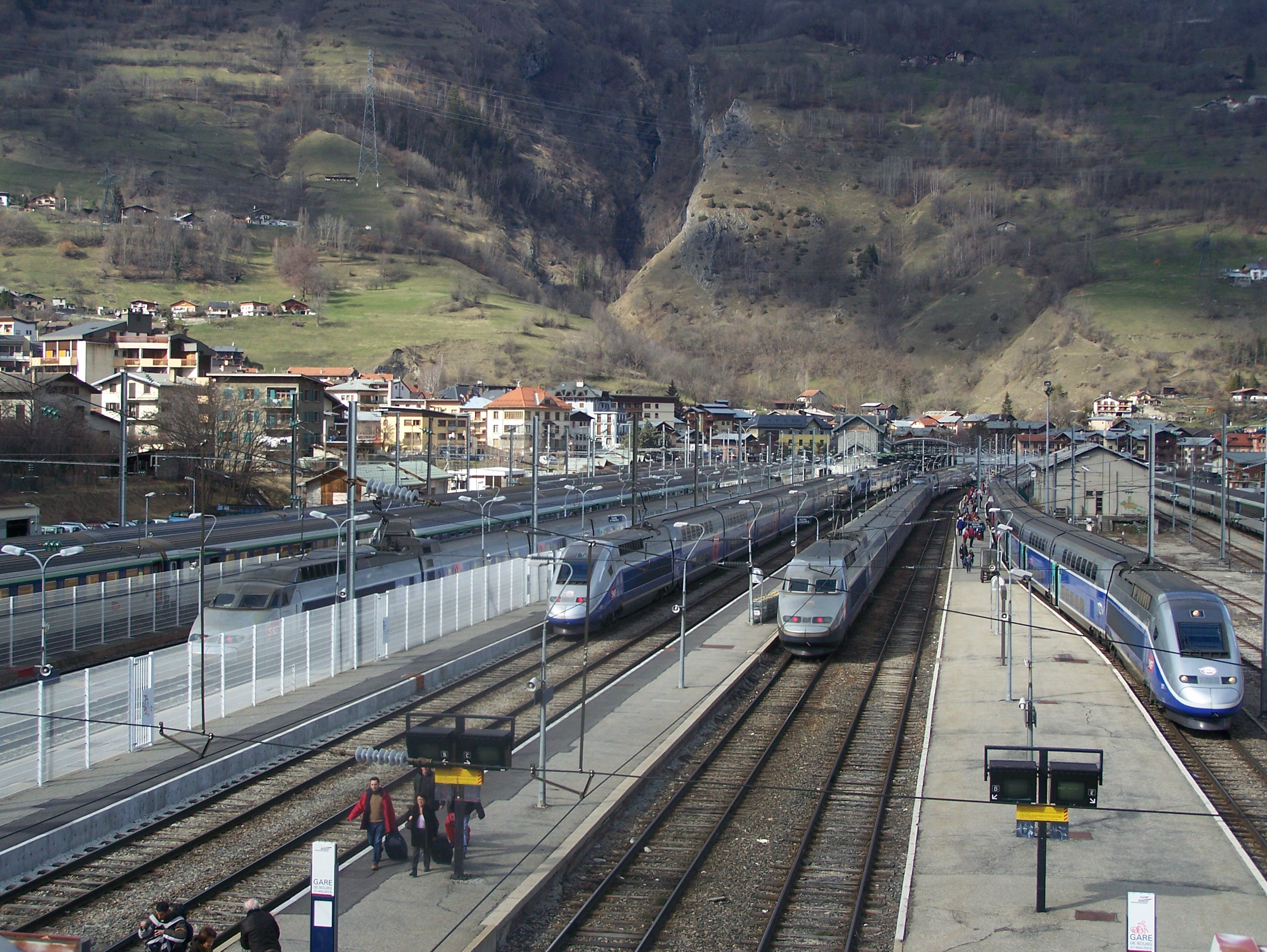 Sight on the tracks and platforms of the Bourg St-Maurice railway station during a busy Saturday of winter holidays, in Savoie, France.